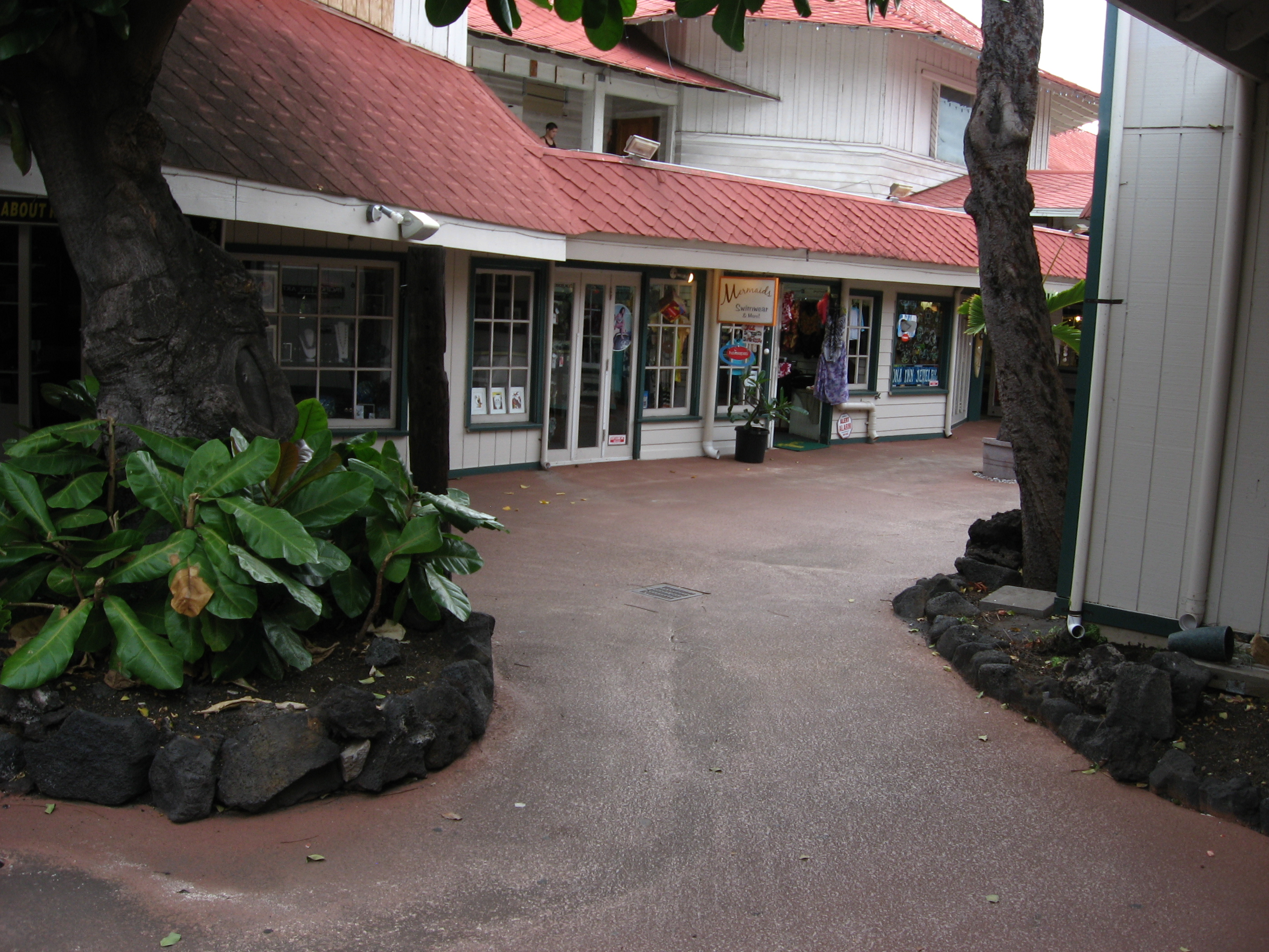 Ali'i Drive is the main street of Kailua-Kona, Island of Hawaii, USA. Ali'i Drive is the main street of Kailua-Kona on the western side of Island of Hawaii, USA. It is a coastal road, which faces the Bay of Kailua, where many historical sites, resort hotels, souvenir shops, markets and churches are located. Ali'i Drive starts from the crossing with Kuakini Highway, just north of Kailua Pier, and ends at Keauhou Shopping Center in Keauhou, with the northern part of the drive busiest. At Kailua Pier, the passengers from the luxurious crouise ships come ashore by launches. Along the road are souvenir shops for these tourists as well as people who take a walk, Farmers' Market and many large and small resort hotels. The historical sites are: Ahuena Heiau where King Kamehameha spent his retired life, the Hulihee Palace which was used by the royal family of the Hawaiian Kingdom, Mokuaikaua Church which was the first church in Hawaii, and St. Michael's Catholic Church.